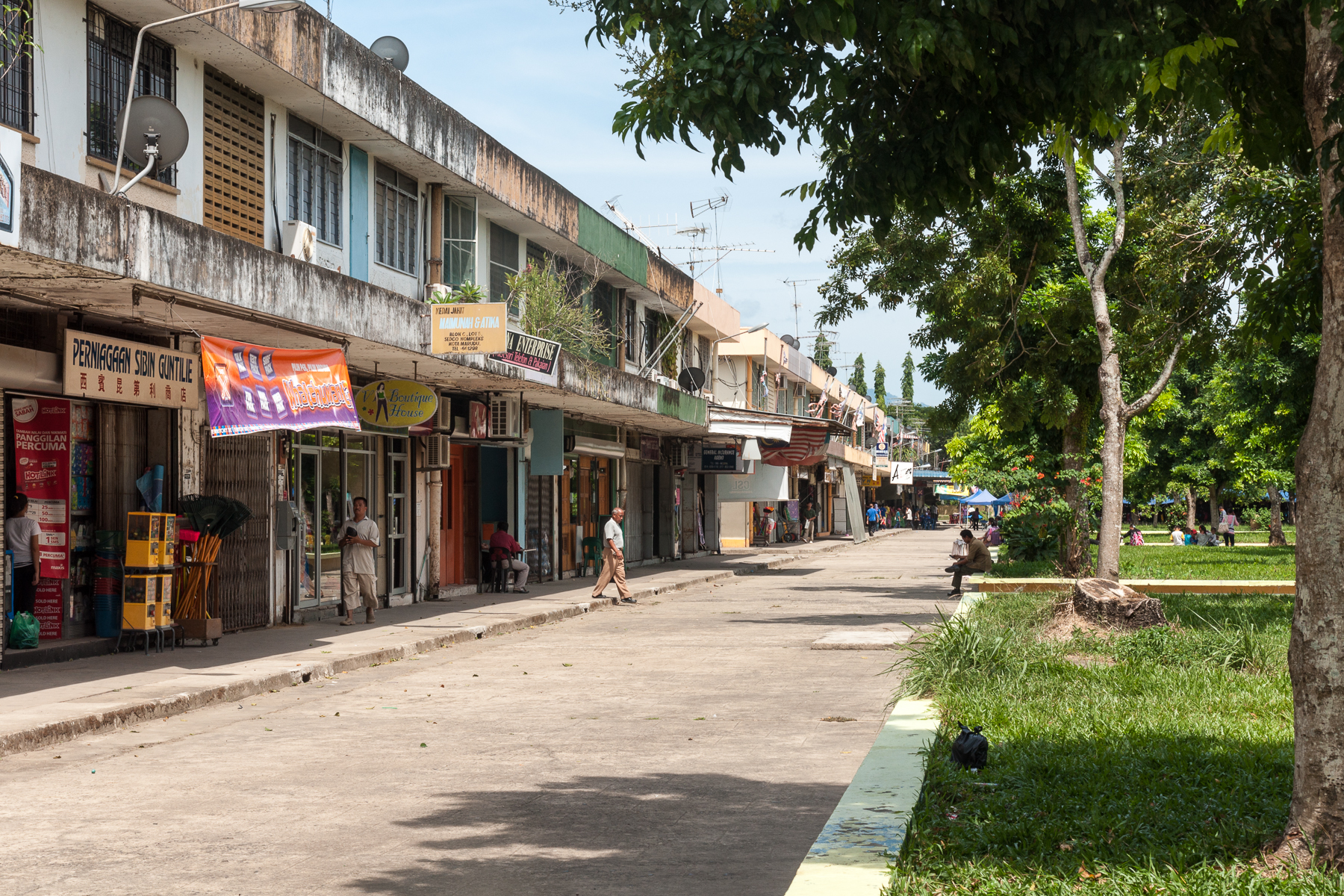 Kota Marudu, Sabah: Town center